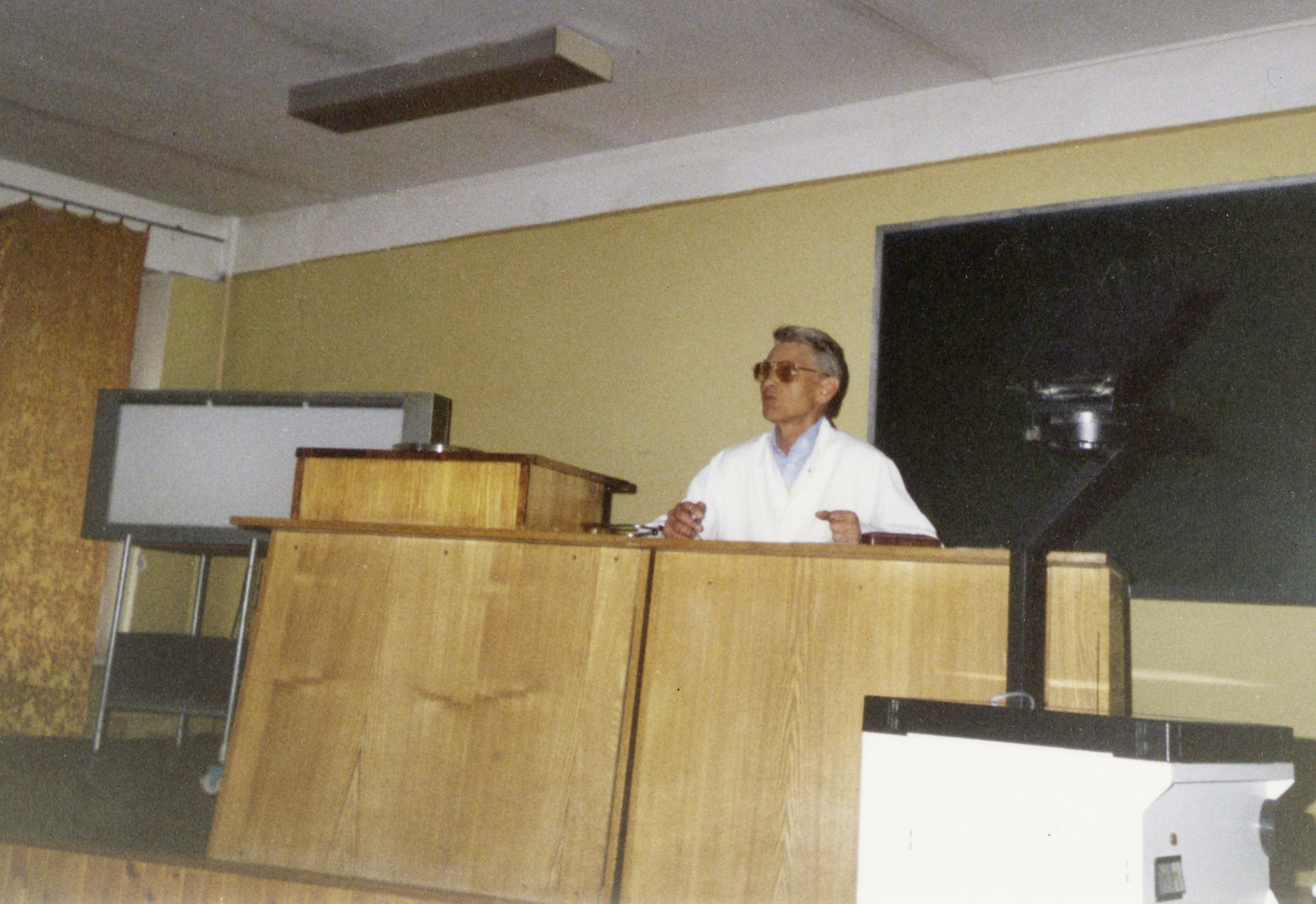 Boldirev Rem, docent of Pediatrics